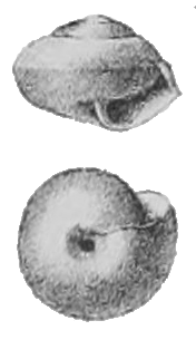 Drawing of apertural and umbilical view of a juvenile shell of Edentulina moreleti